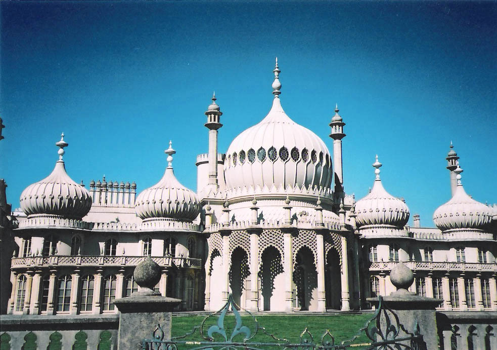 Royal Pavilion in Brighton (photograph is scanned)